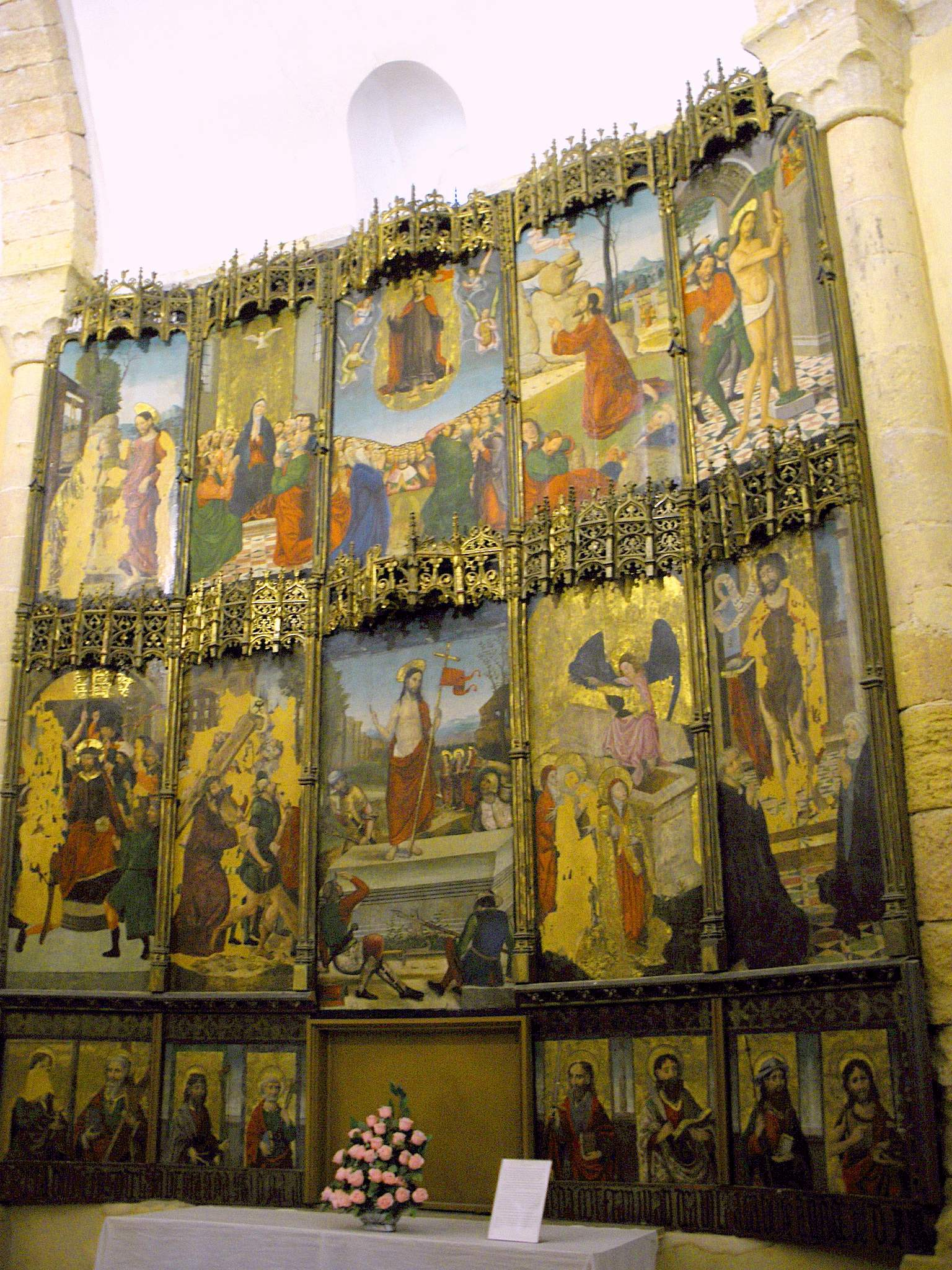 Church of the Vera Cruz (Zamarramala, Segovia). Gothic altar